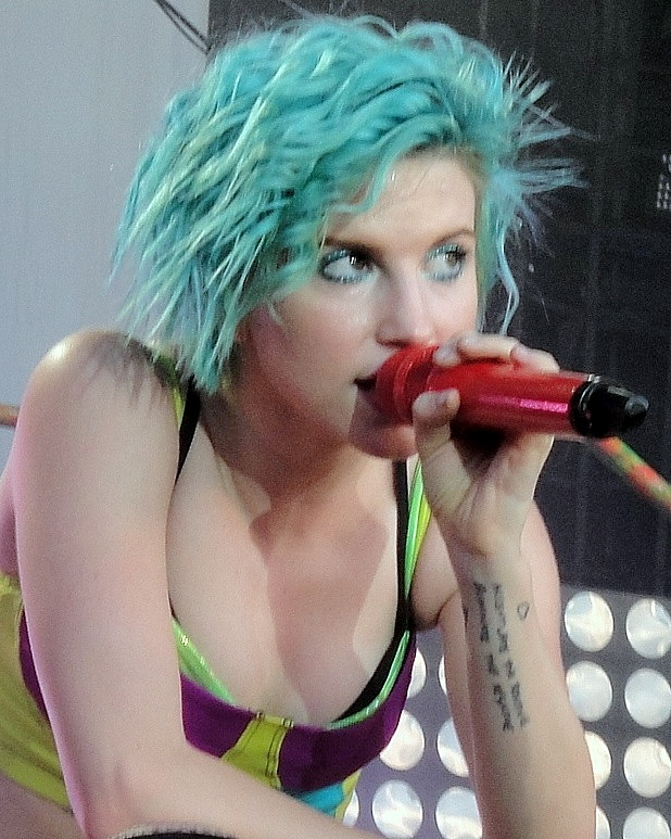 Cropped version of the File:Oklahoma City - Hayley Williams.jpg.